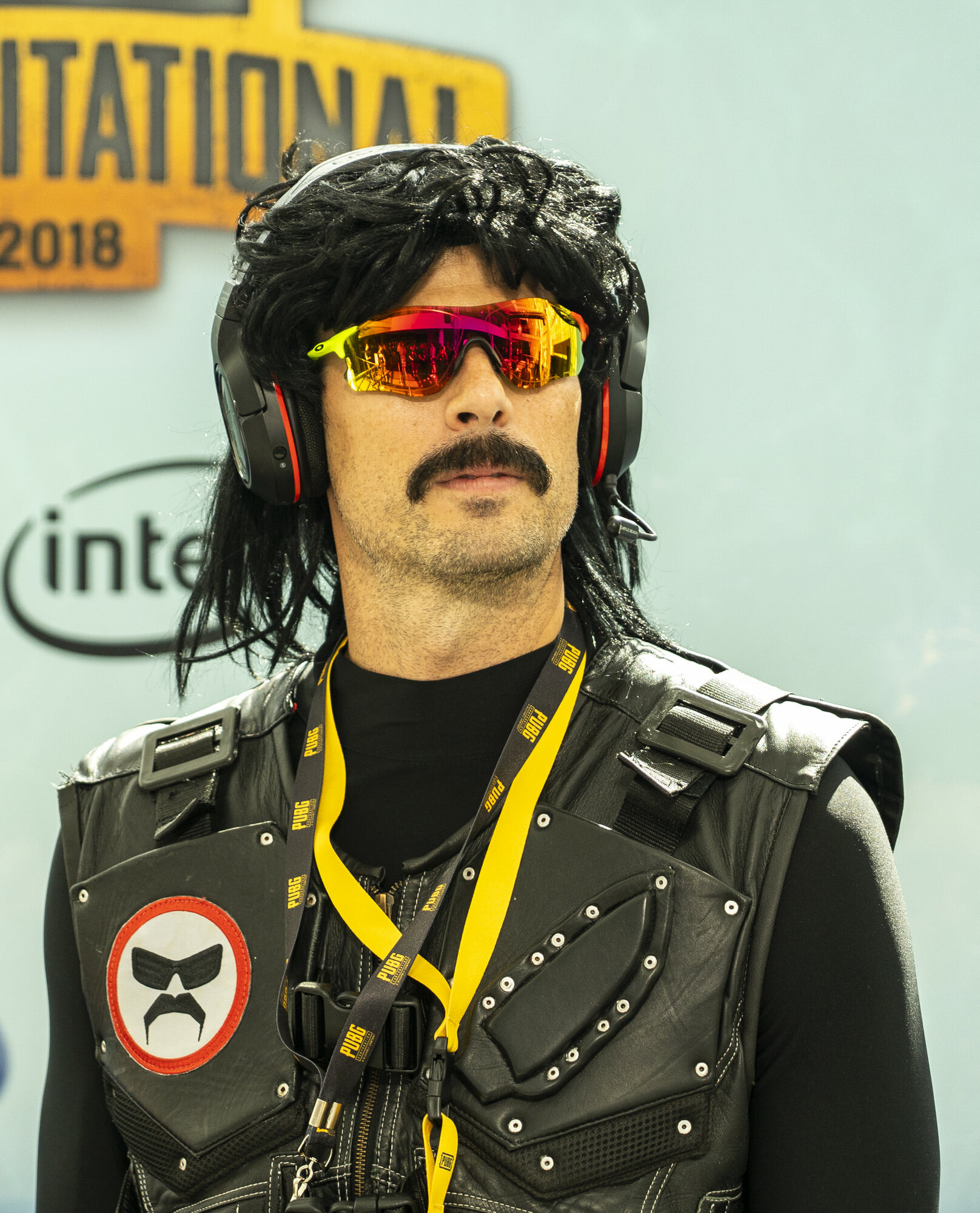 Dr DisRespect Cropped